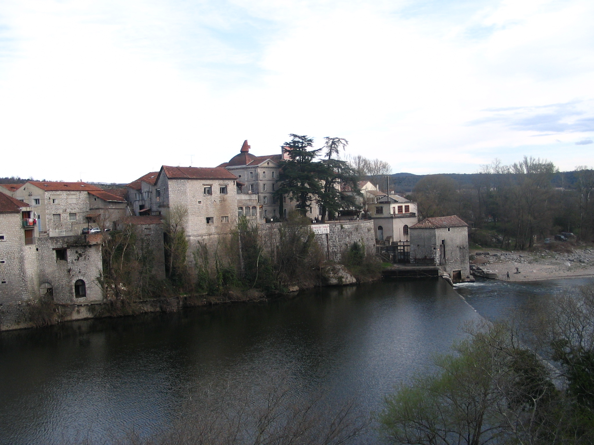 Rumos and Ardèche River, France